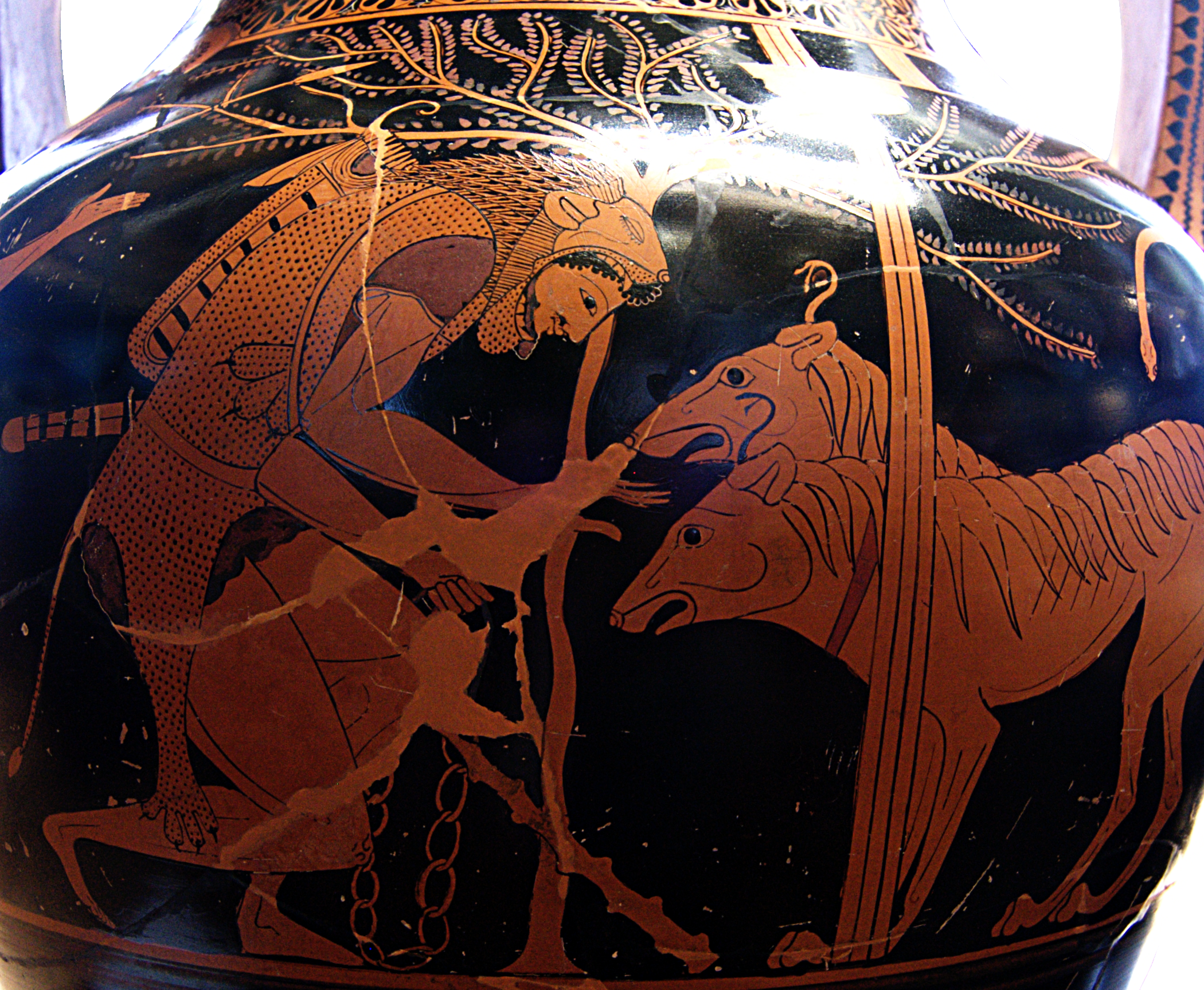 Heracles and Cerberus. Side A (red-figure) from an Attic bilingual amphora by the Andokides Painter, ca. 530–520 BCE. The original image was photographed and uploaded by User:Bibi Saint-Pol, own work, 2007-06-15 This version of the image has been cropped slightly, resized for deeper dpi, white-balanced, glare-reduced, and the background changed to solid white.